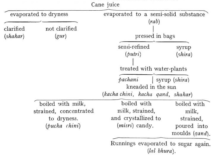 Cane sugar processing terms in India